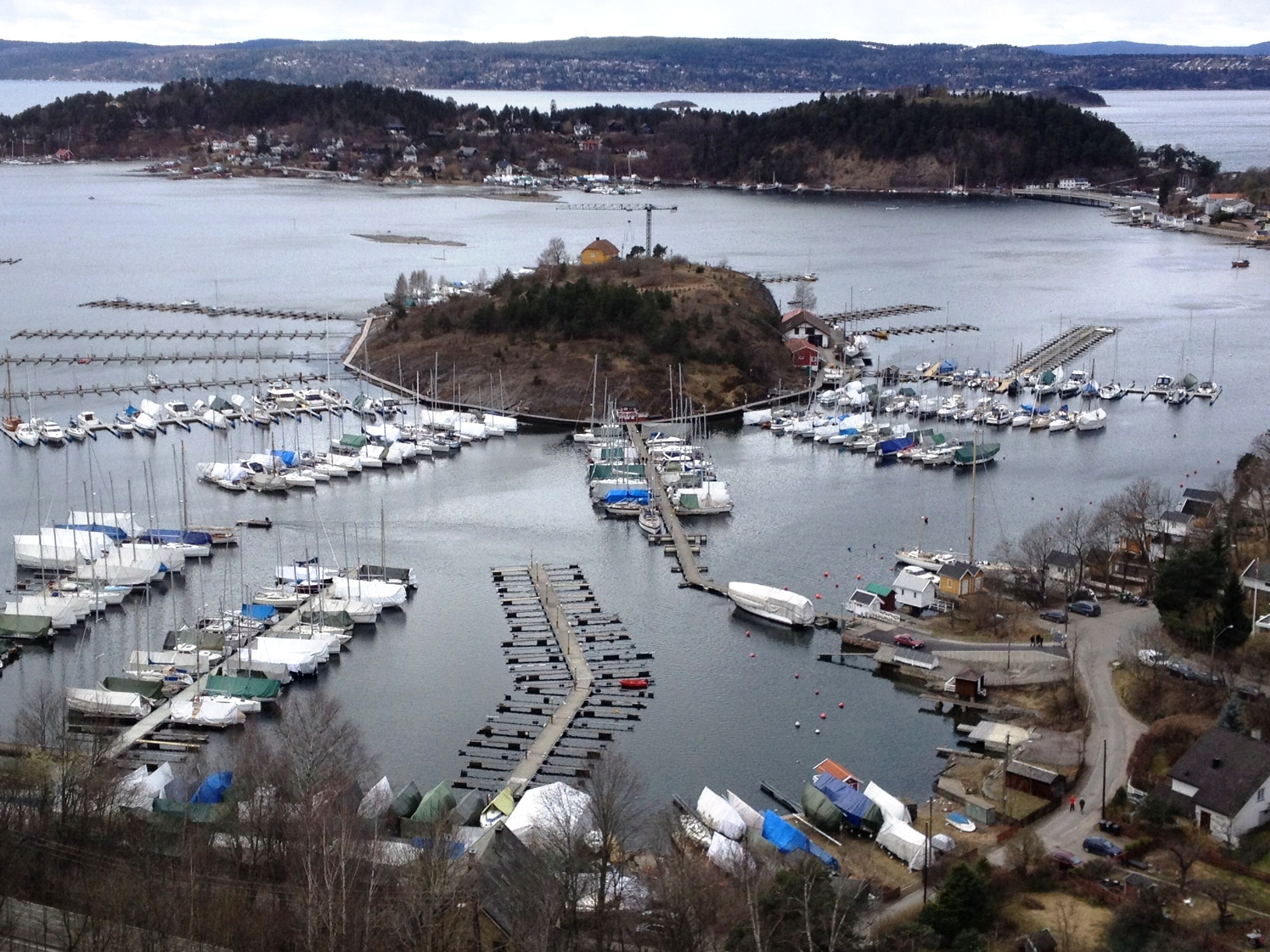 The small island Padda in the Oslo Fjord, between Bekkelaget, malmøya and Ulvøya.